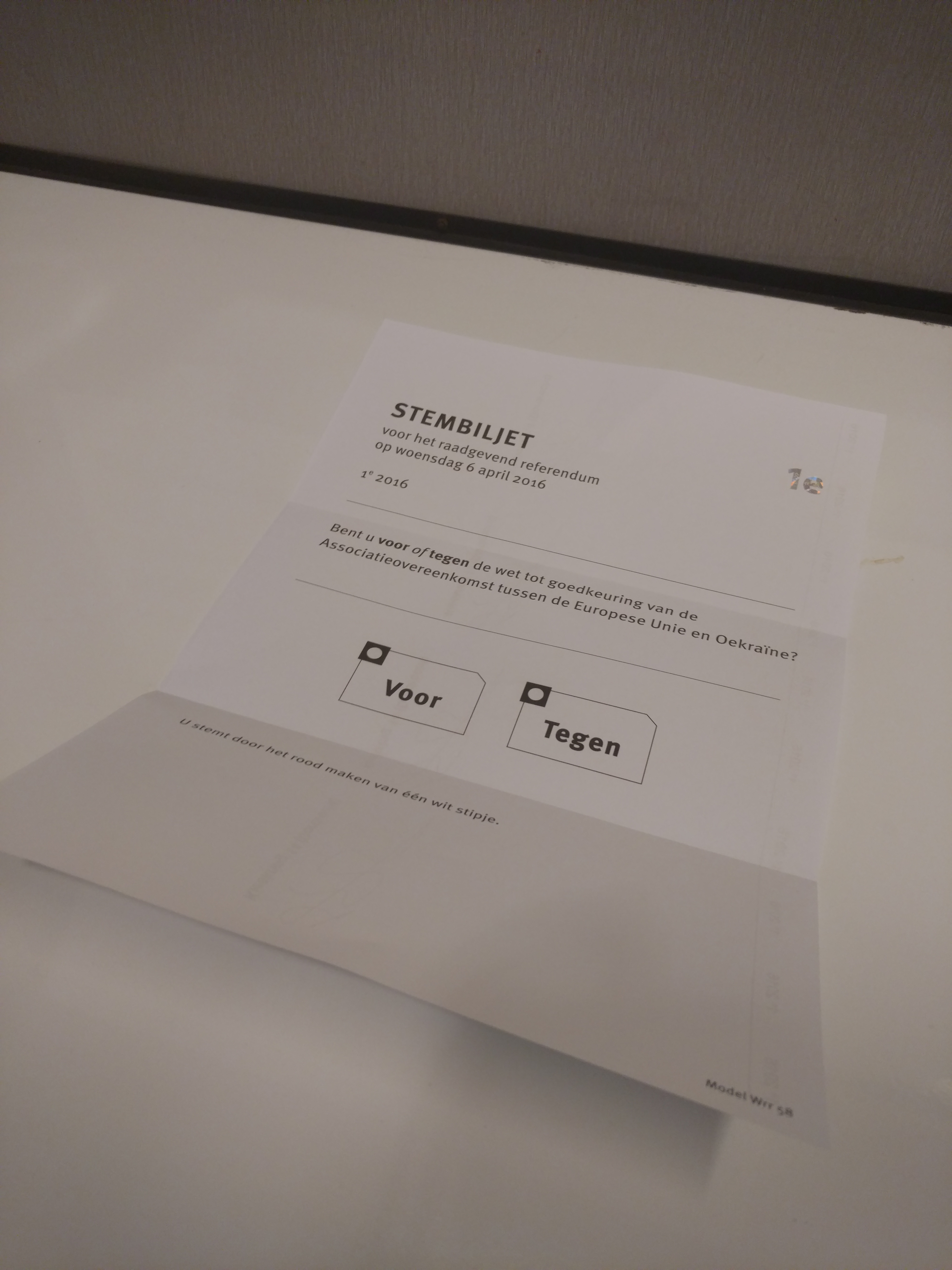 Blank voting bill for the Dutch advisable referendum about the EU association treaty with the Ukraine